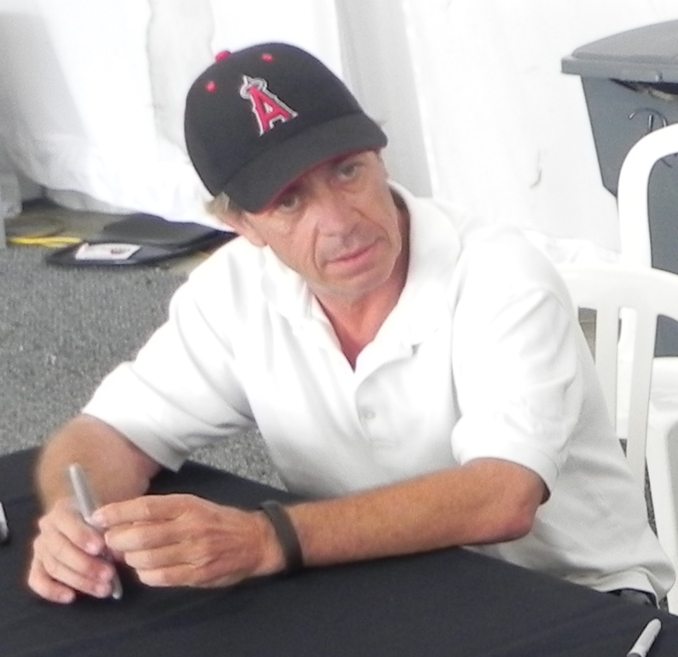 Indy500 driver Ted Prappas at the 2014 Indianapolis 500.